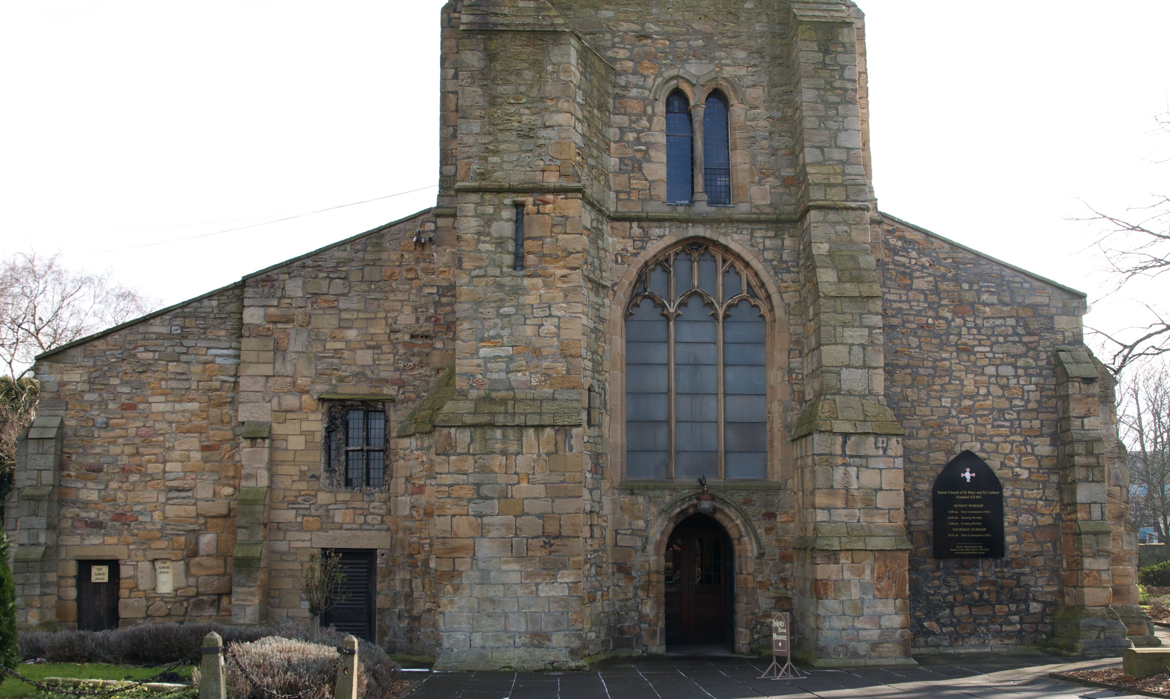 Front of St Mary and St Cuthbert parish church; front view of the church, with Ankers House Museum on the left.